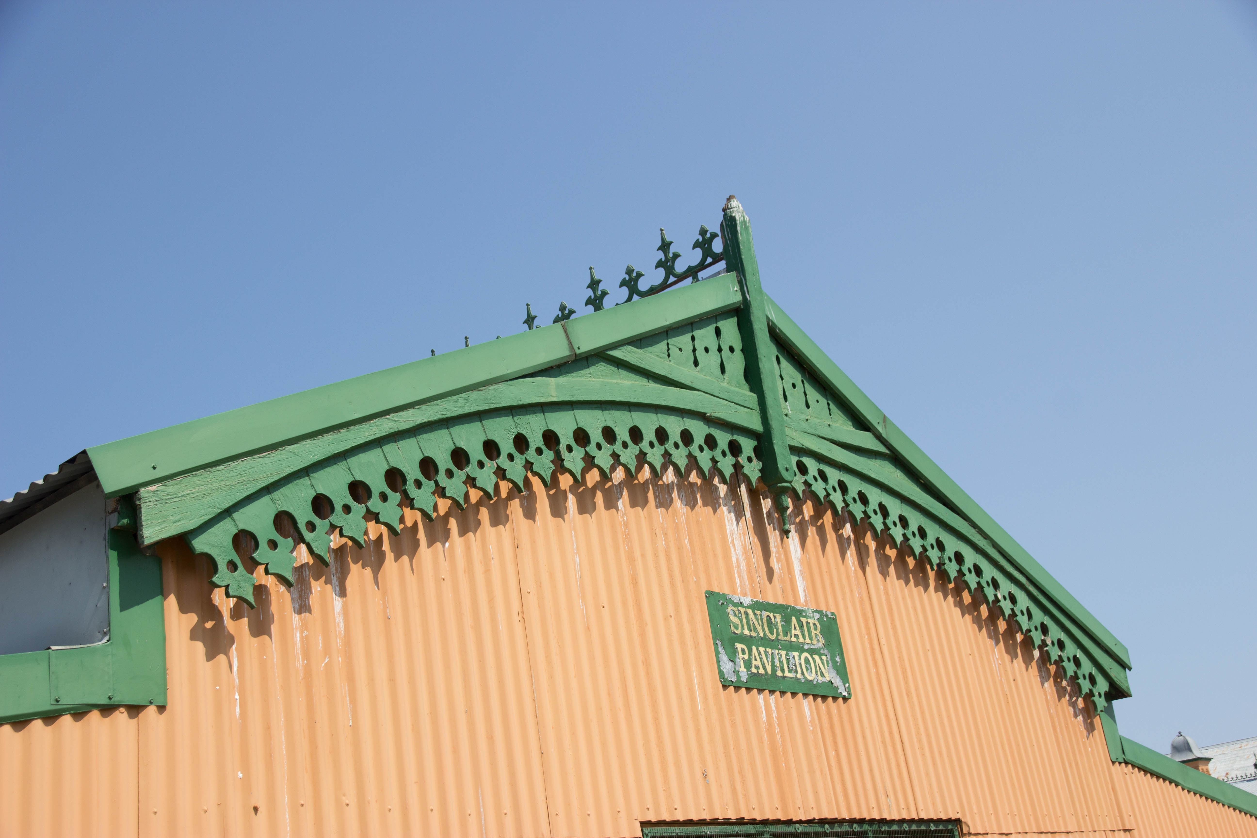 Bathurst Showground in Bathurst, New South Wales